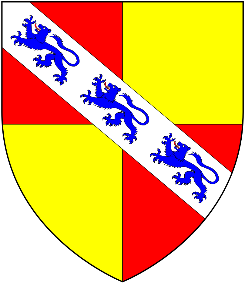 Arms of Perry of Water/ Waters/ AtWaters (modern: Waterhouse) in the parish of Membury, Devon: Quarterly gules and or, on a bend argent three lions passant azure (Vivian, Lt.Col. J.L., (Ed.) The Visitations of the County of Devon: Comprising the Heralds' Visitations of 1531, 1564 & 1620, Exeter, 1895, p.591; Pole, Sir William (d.1635), Collections Towards a Description of the County of Devon, Sir John-William de la Pole (ed.), London, 1791, p.496)